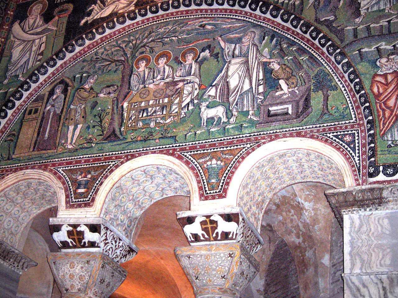 Abraham entertaining three angels; sacrifice of Isaac; Basilica of San Vitale in Ravenna, Italy.